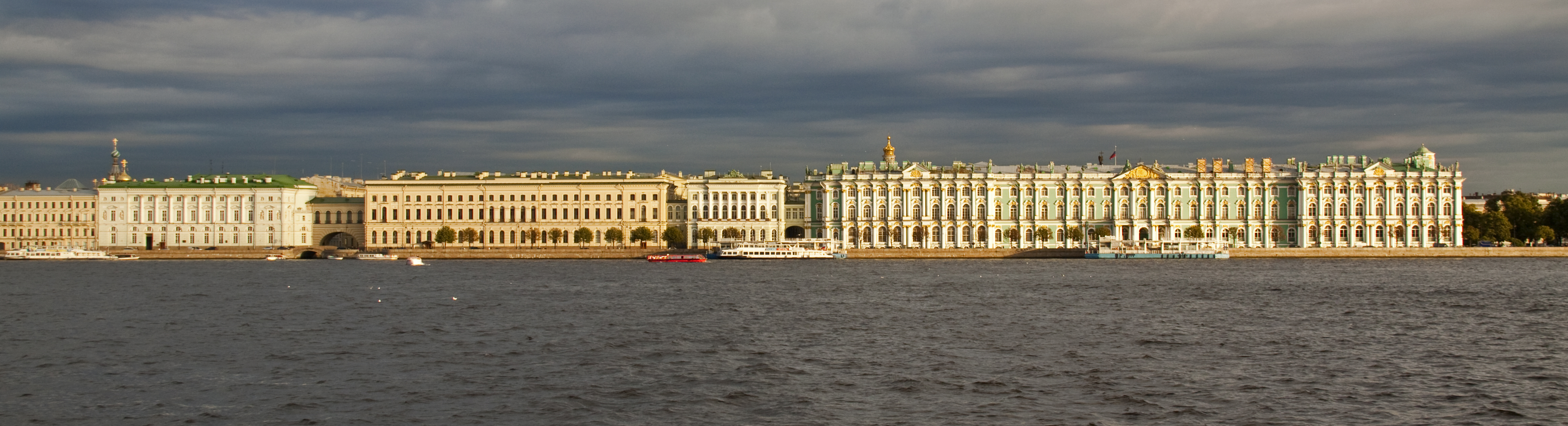 Sankt Petersburg, Winter Palace from Neva.